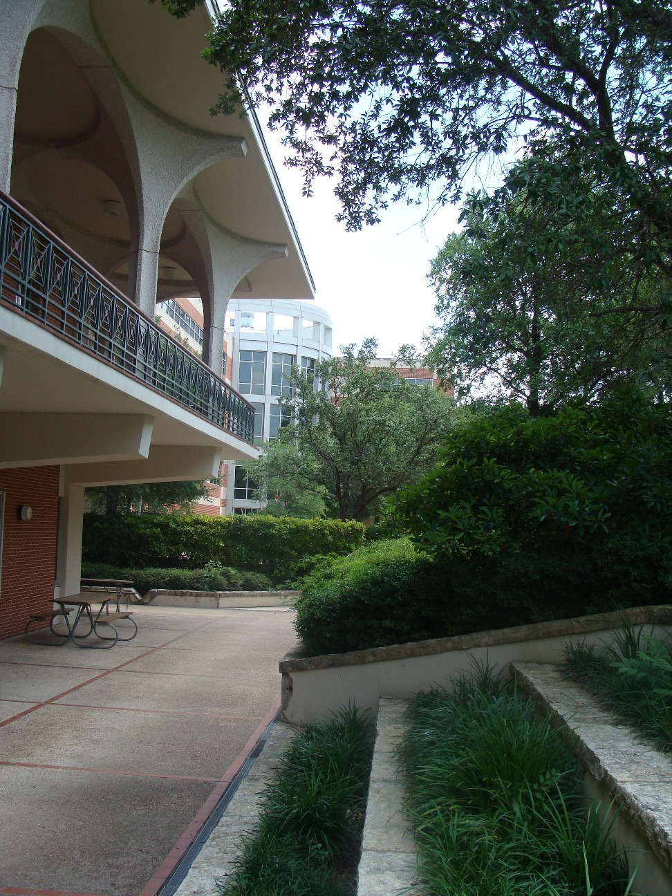 Sasn Antonio College, Texas